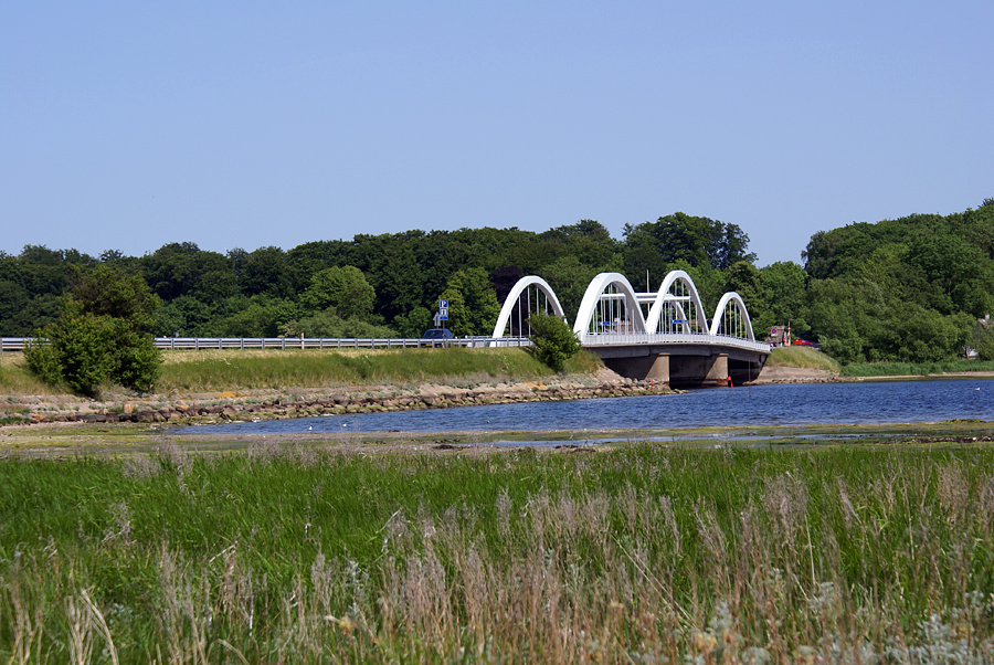 The bridge Munkholmbroen near Holbæk, Denmark seen from south